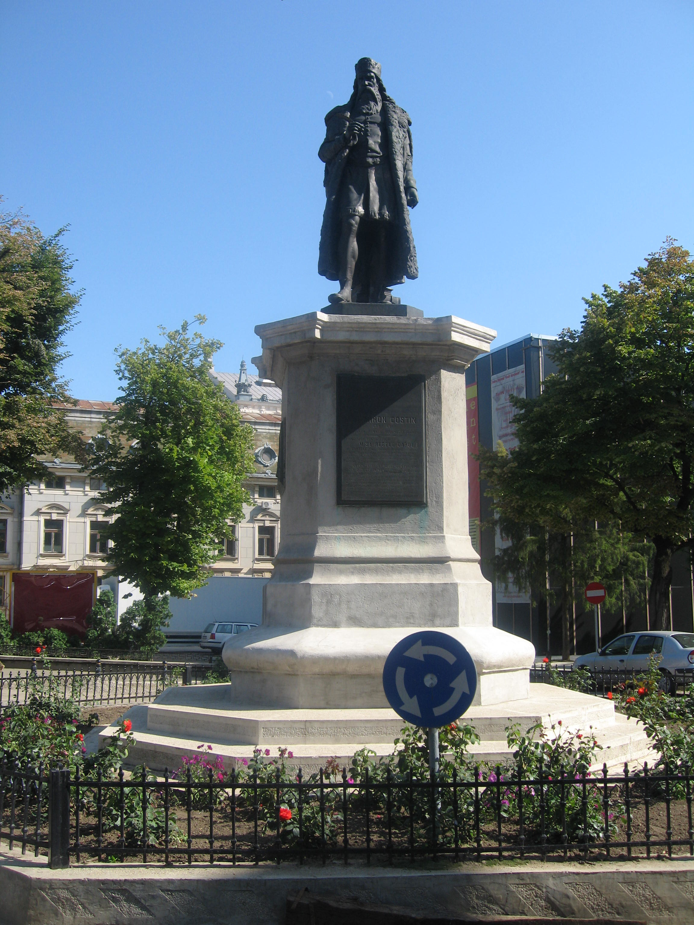 Monument to Miron Costin, Wladimir Hegel, IaşiRomână: Statuia lui Miron Costin din Iaşi